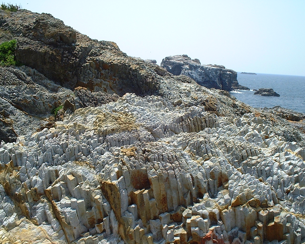 Columnar joint of Hinomisaki.